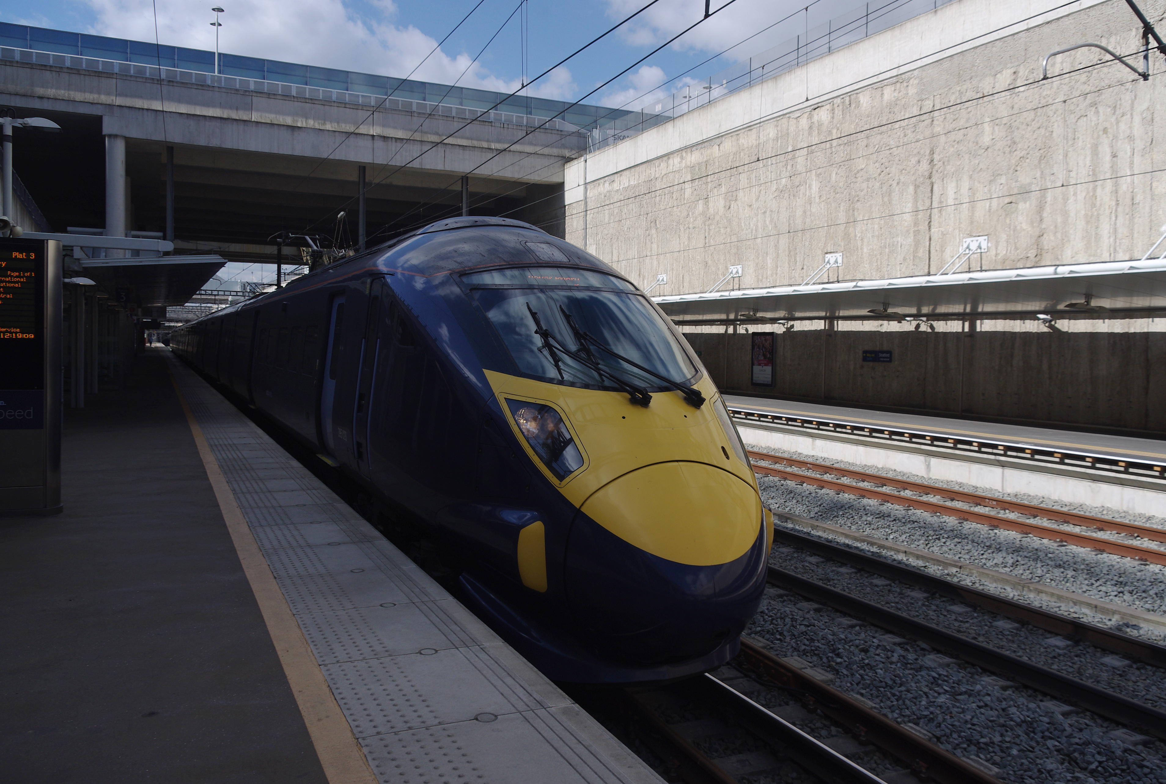 Southeastern Class 395 "Javelin" EMU 395028 departs Stratford International with a domestic high speed service to Dover Priory. Unsure why this end has yellow flashes at the bottom, the other end didn't.